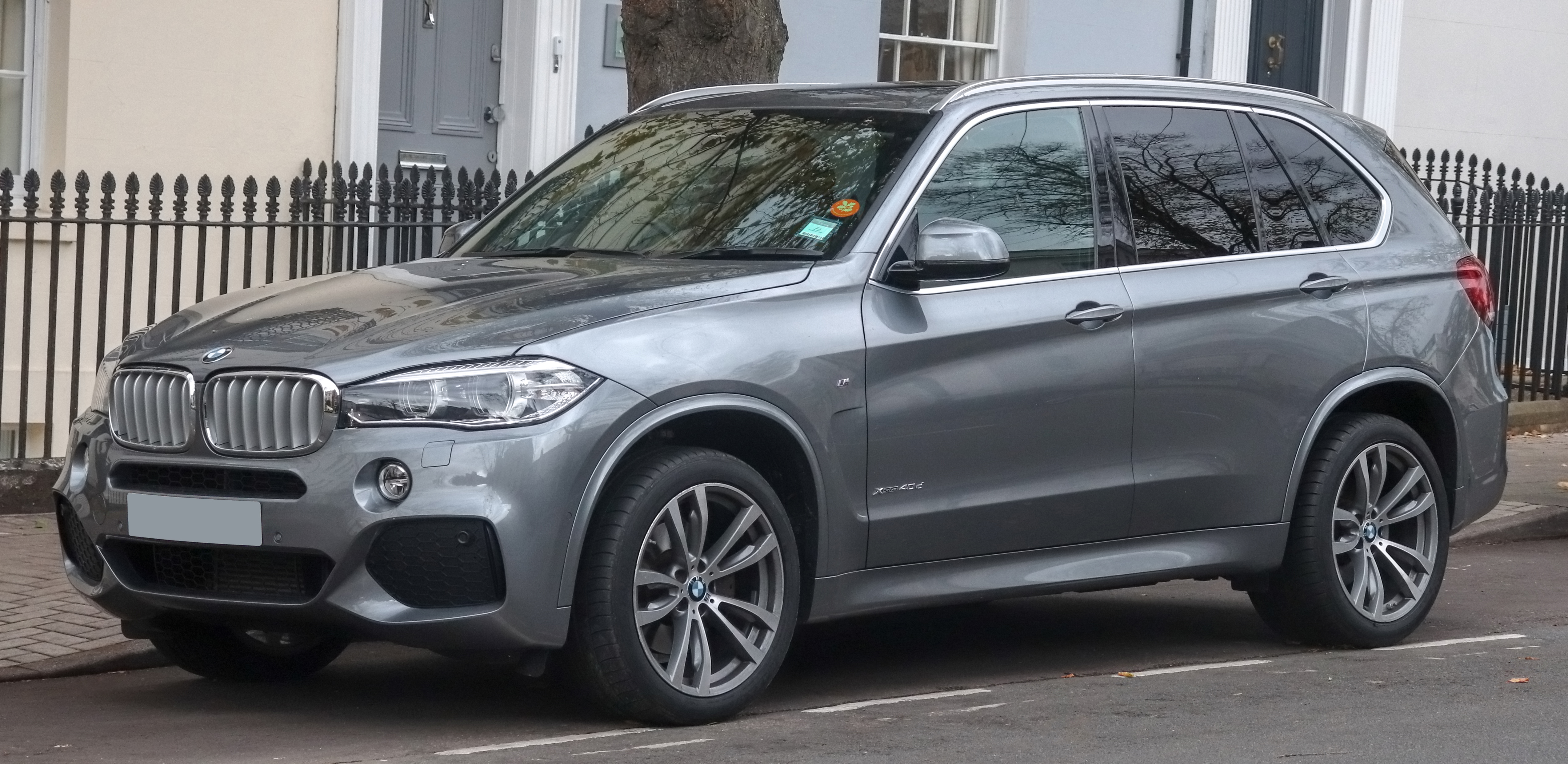 2016 BMW X5 xDrive40d M Sport Automatic 3.0 Front Taken in Leamington Spa